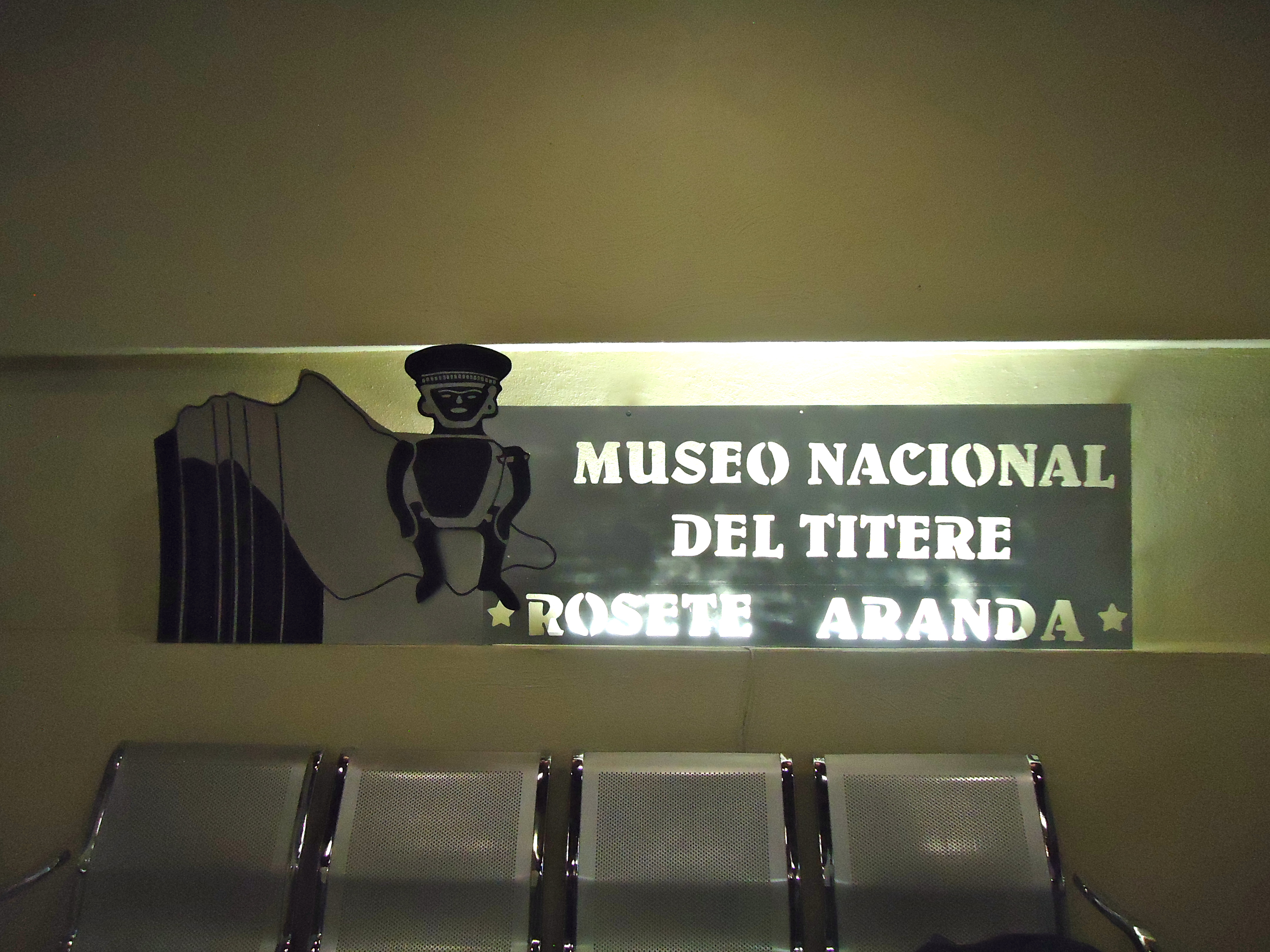 Recepción del Museo Nacional del Títere Rosete Aranda en Huamantla Tlaxcala